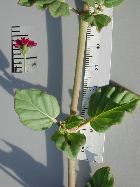 Boerhavia coccinea Scarlet Spiderling growing in vacant urban land, Maricopa County, Arizona, USA. Ruler scaled in mm.